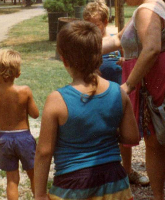 Child in the 1980's with a rat tail